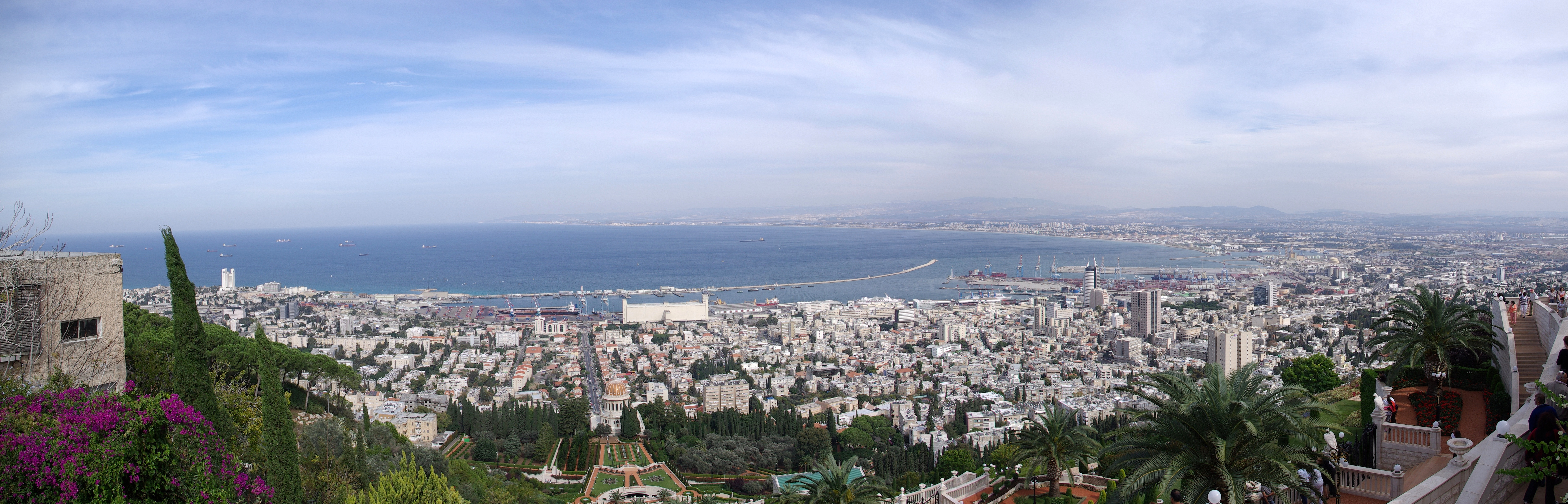 Haifa, Panorama